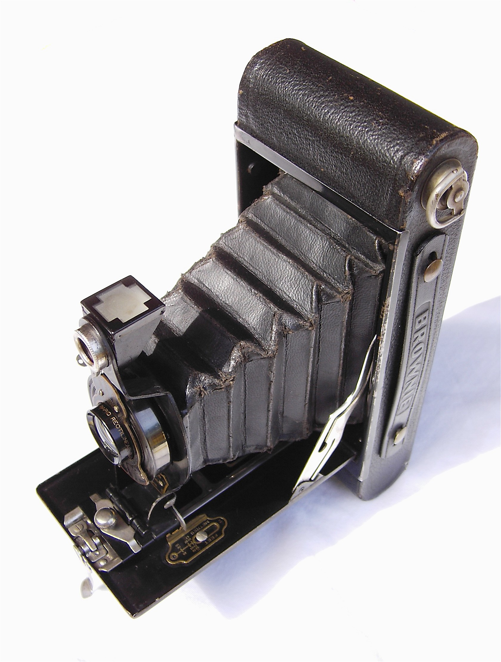 'Kodak No. 2-A Folding Autographic Brownie' for 116-film. Build ca. 1917 (last USA patent-marking on the camera-body dates on June 19, 1917; first patent marking on April 29, 1902).